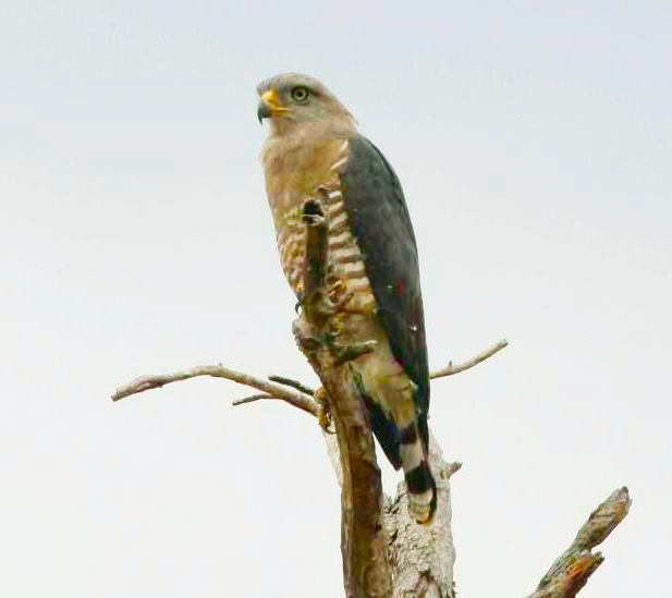 Southern banded snake-eagle at Chiboma in Sofala, Mozambique